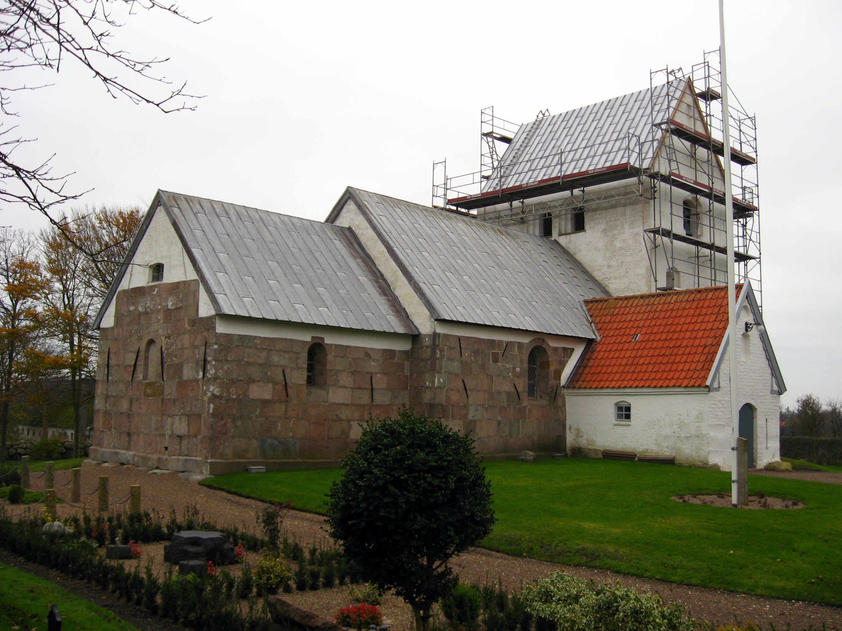 Vust Church, Denmark (under renovation)